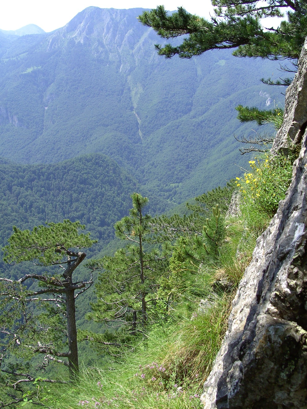 National park Sutjeska, Bosnia and Herzegovina Digital StillCamera